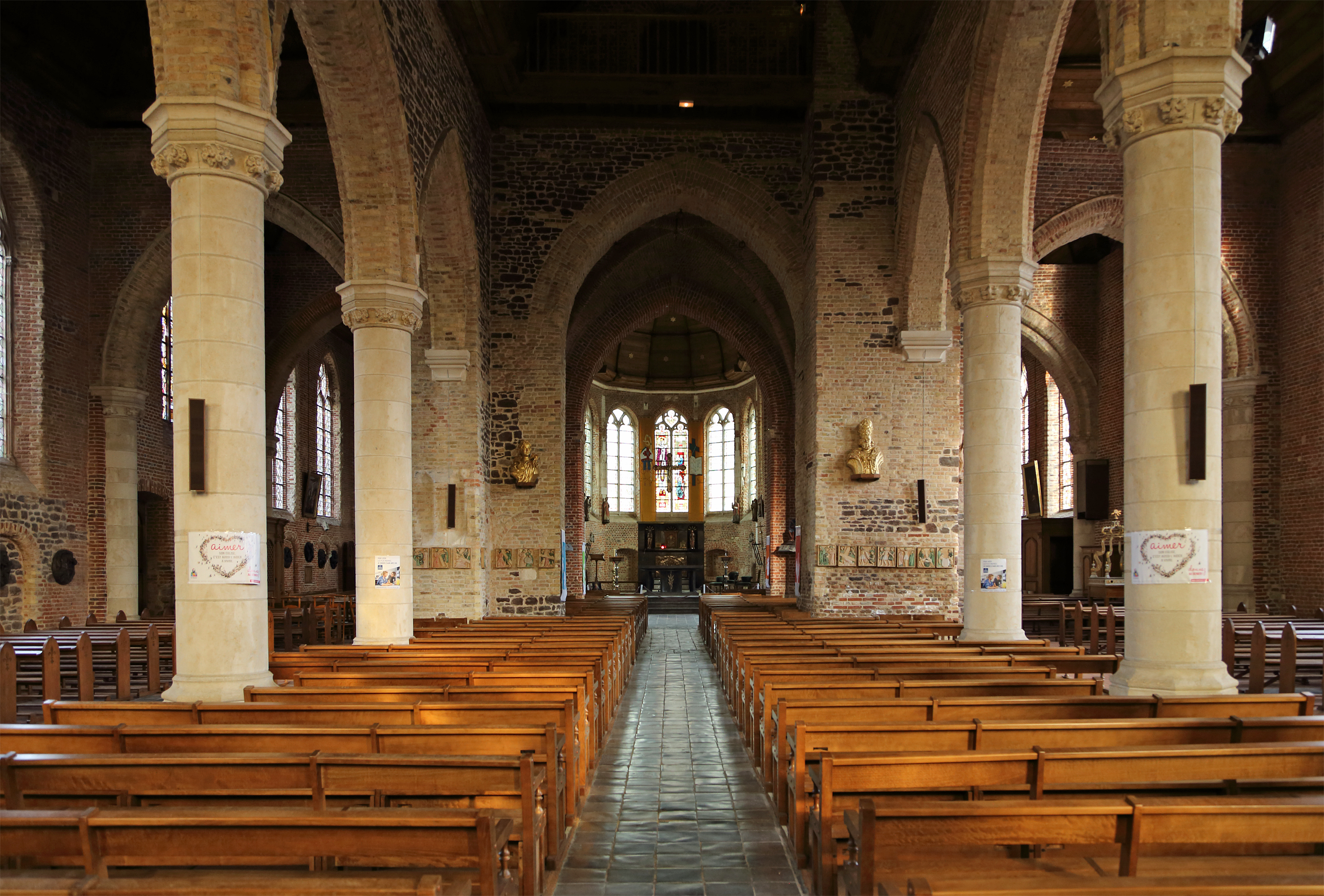 Esquelbecq (Nord department, France): interior of St Folquin's church